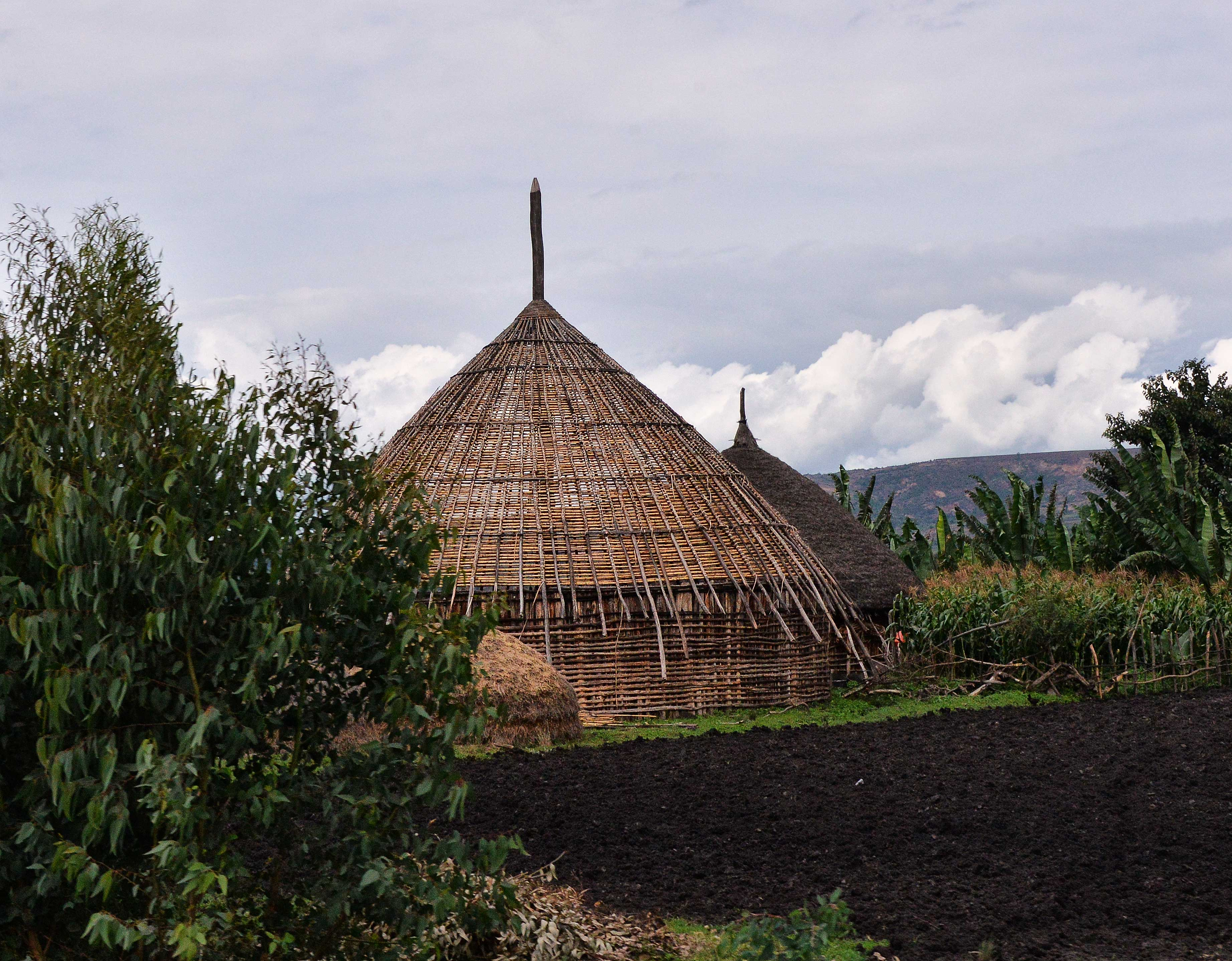 Oromo people are the largest ethnic group in Ethiopia, rural east African home